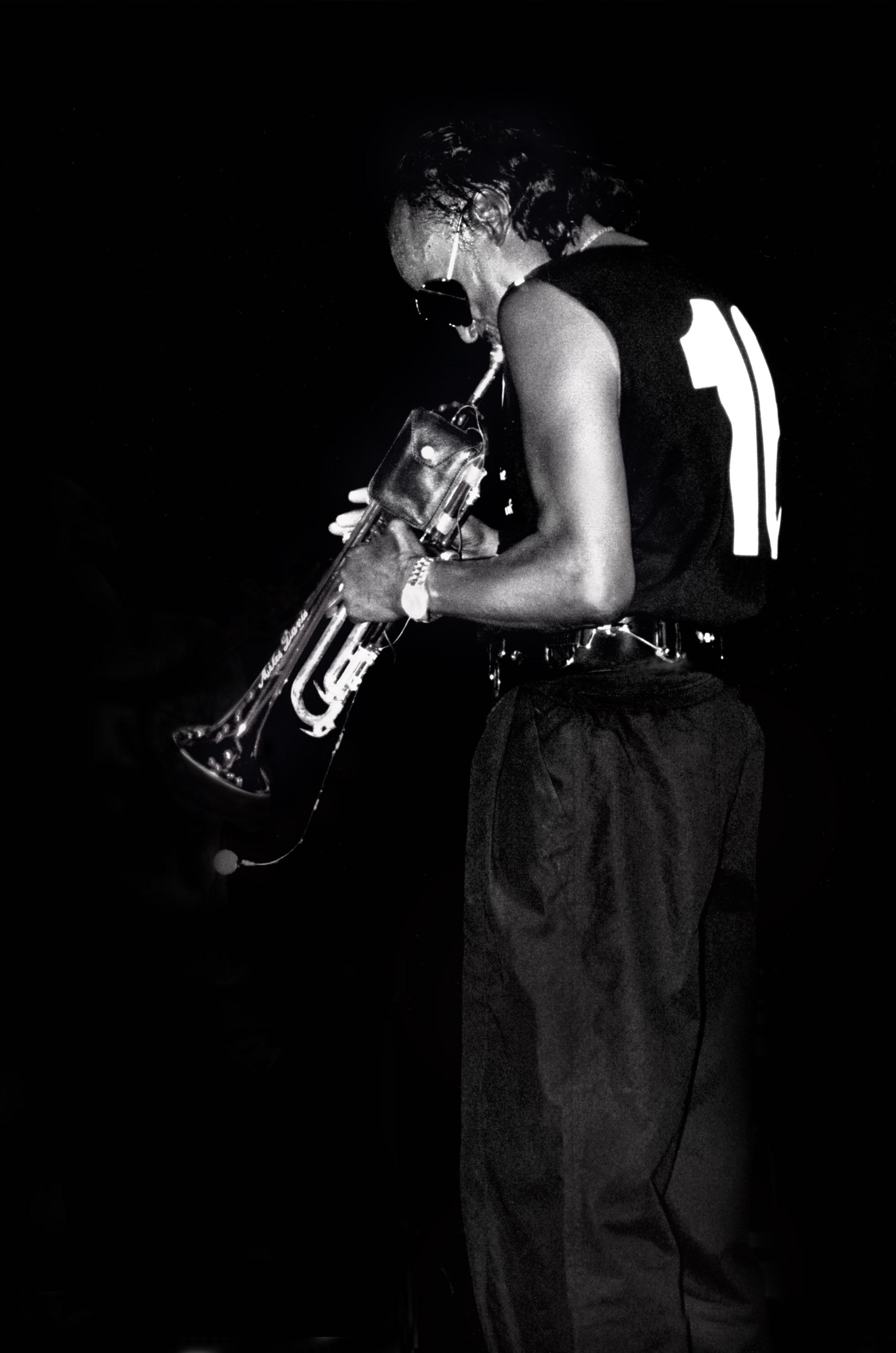 Miles Davis, Den Haag, 1986